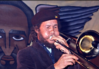 Rico Rodriguez (1934-2015), Jamaican musician.